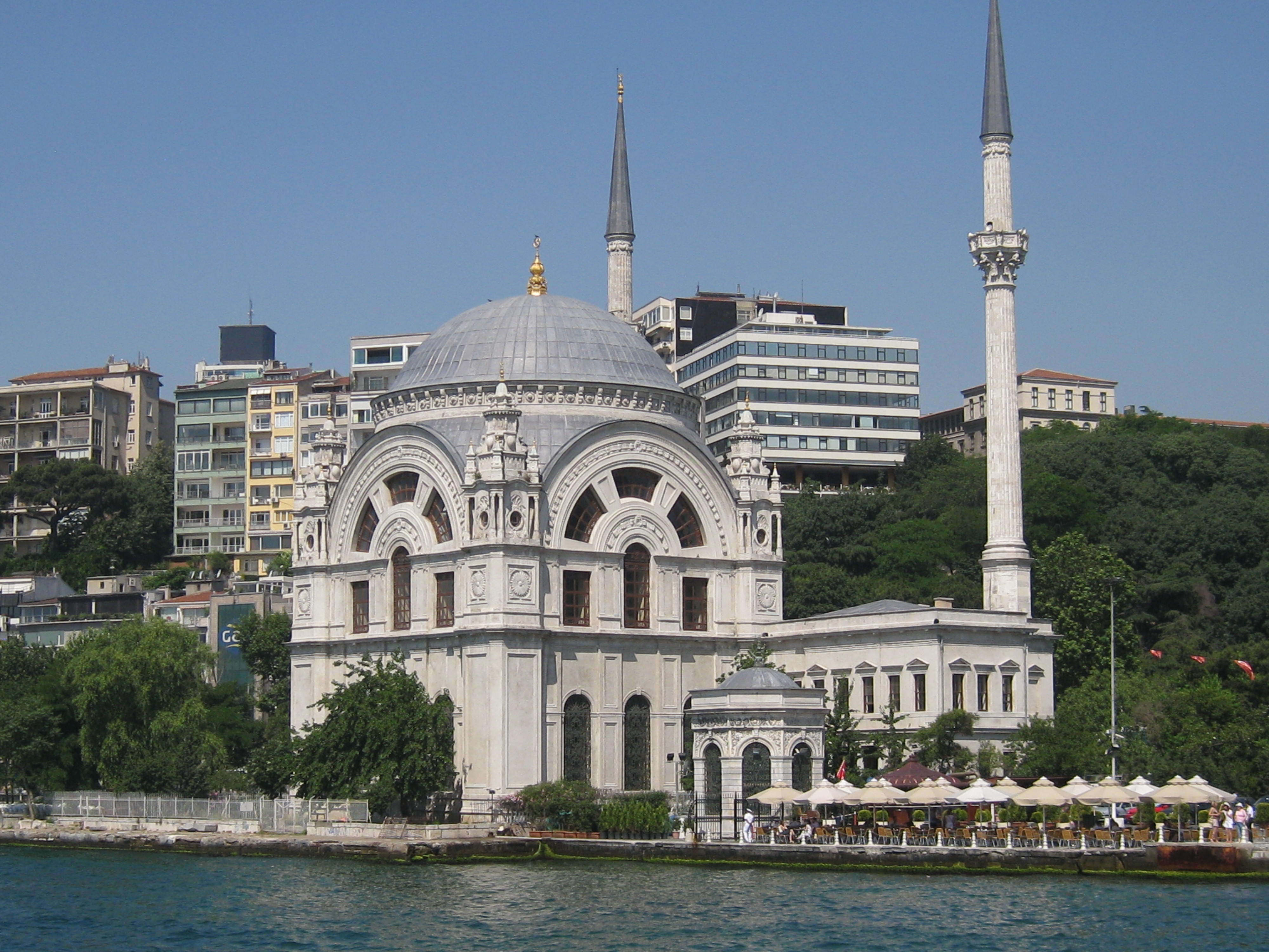 Dolmabahçe Mosque seen from the sea at Beşiktaş